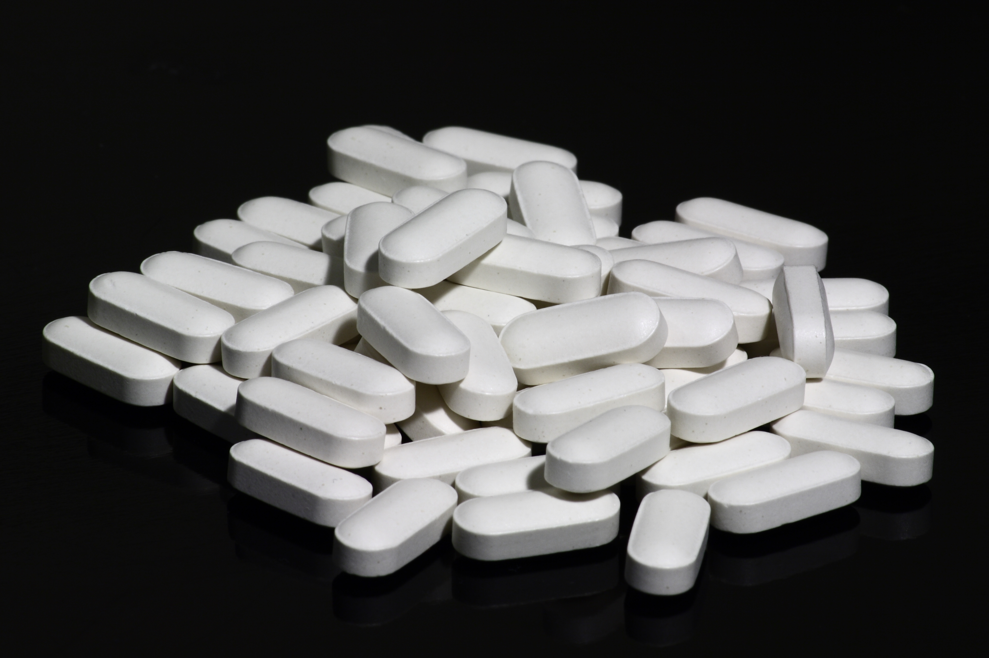 500 mg calcium supplement tablets, with vitamin D, made from calcium carbonate, maltodextrin, mineral oil, hydroxypropyl methylcellulose, glycerin, Vitamin D3, polyethylene glycol, and carnauba wax. These supplements are distributed by Nature Made Nutritional Products.